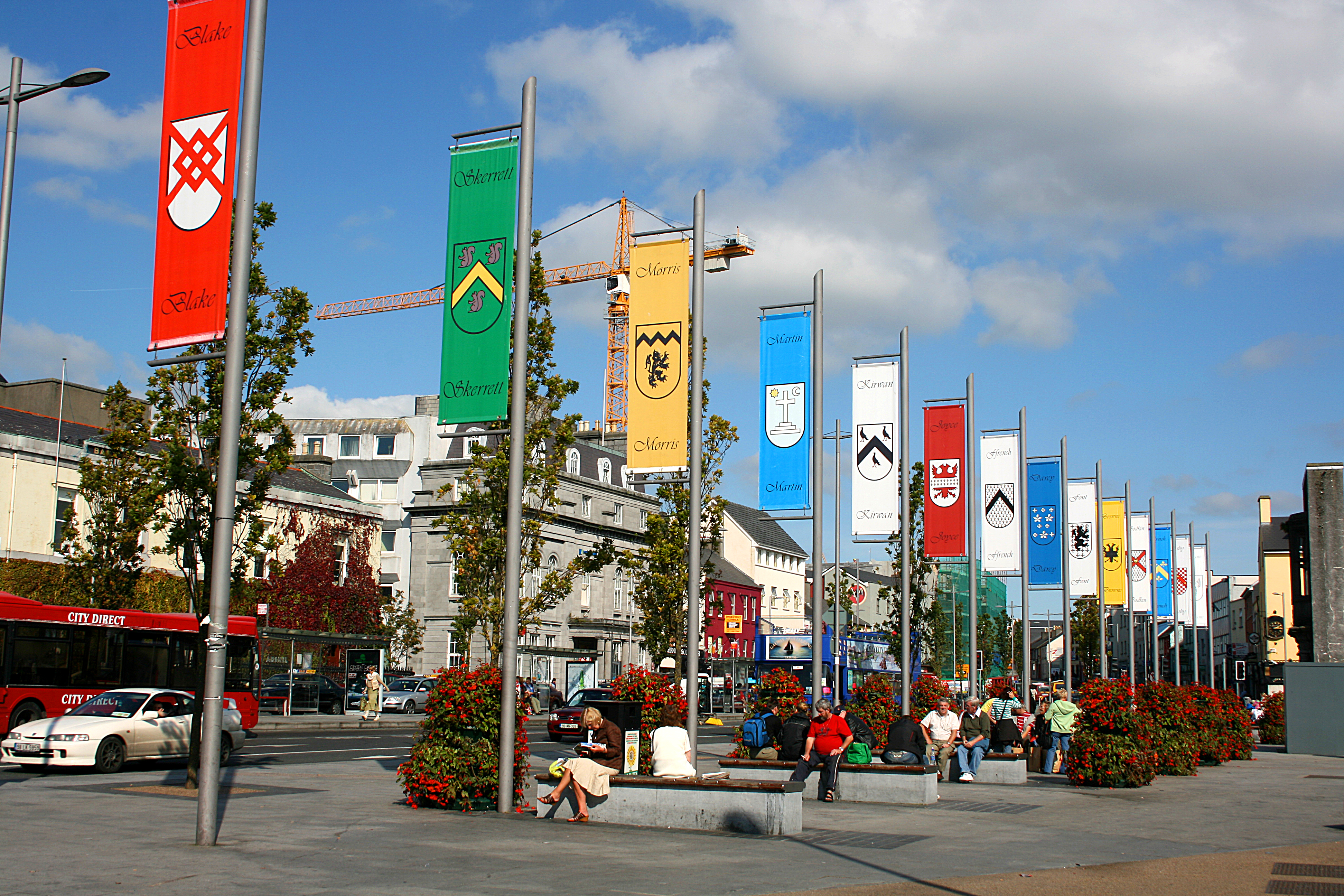 The family names and crests of the fourteen tribes of Galway